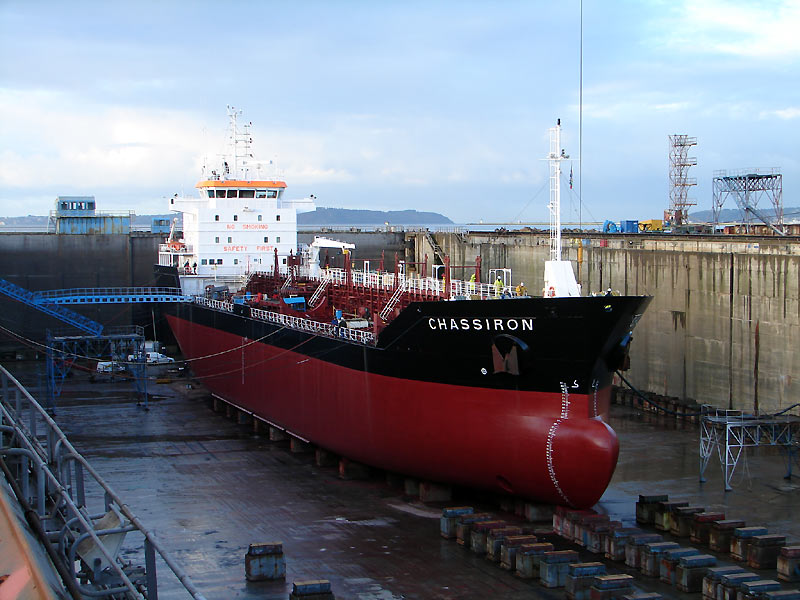 The Chassiron in dry dock in Brest, after repairs and painting.